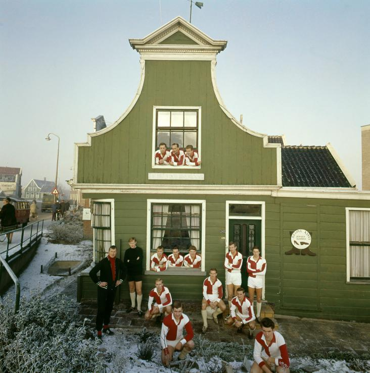 Dutch soccer team posing in front of a traditional wooden house in Zaandam, the Netherlands, 1964. You can help us gain more knowledge on the content of our collection by simply adding a comment with information. If you do not wish to log in, you can write an e-mail to